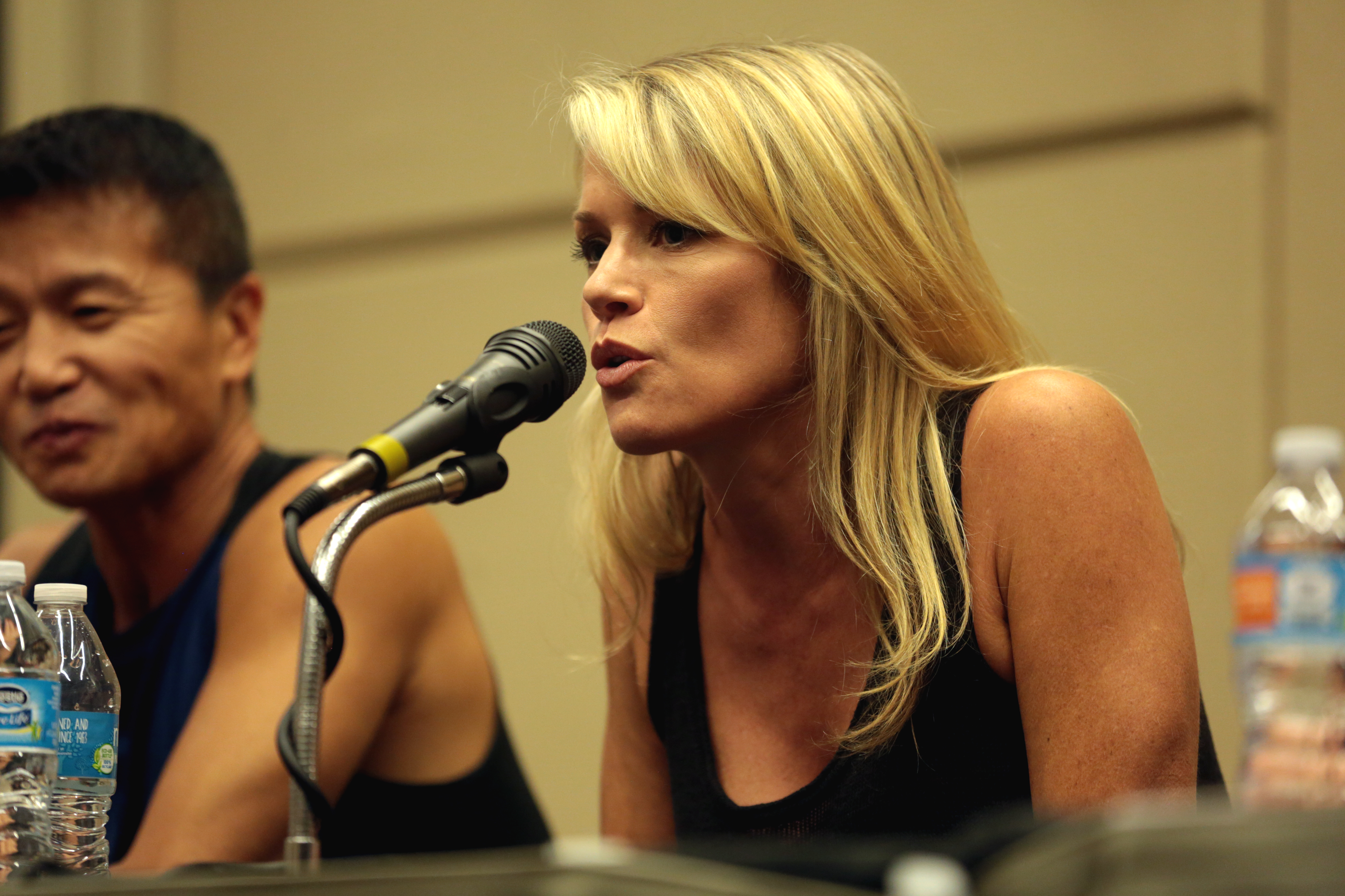 Kerri Ann Hoskins speaking with attendees at the 2017 Game On Expo, for "Mortal Kombat 25th Anniversary Reunion", at the Phoenix Convention Center in Phoenix, Arizona.